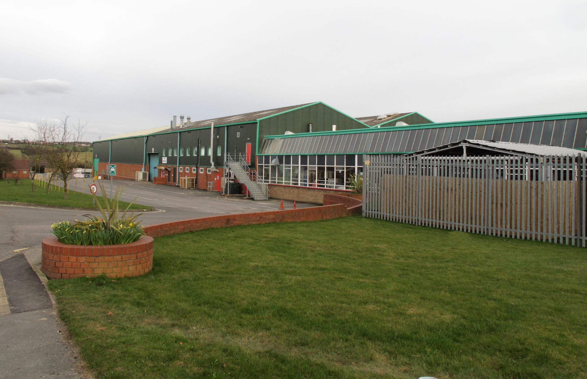 If you have central heating and a combi boiler no doubt some of the parts were made here.